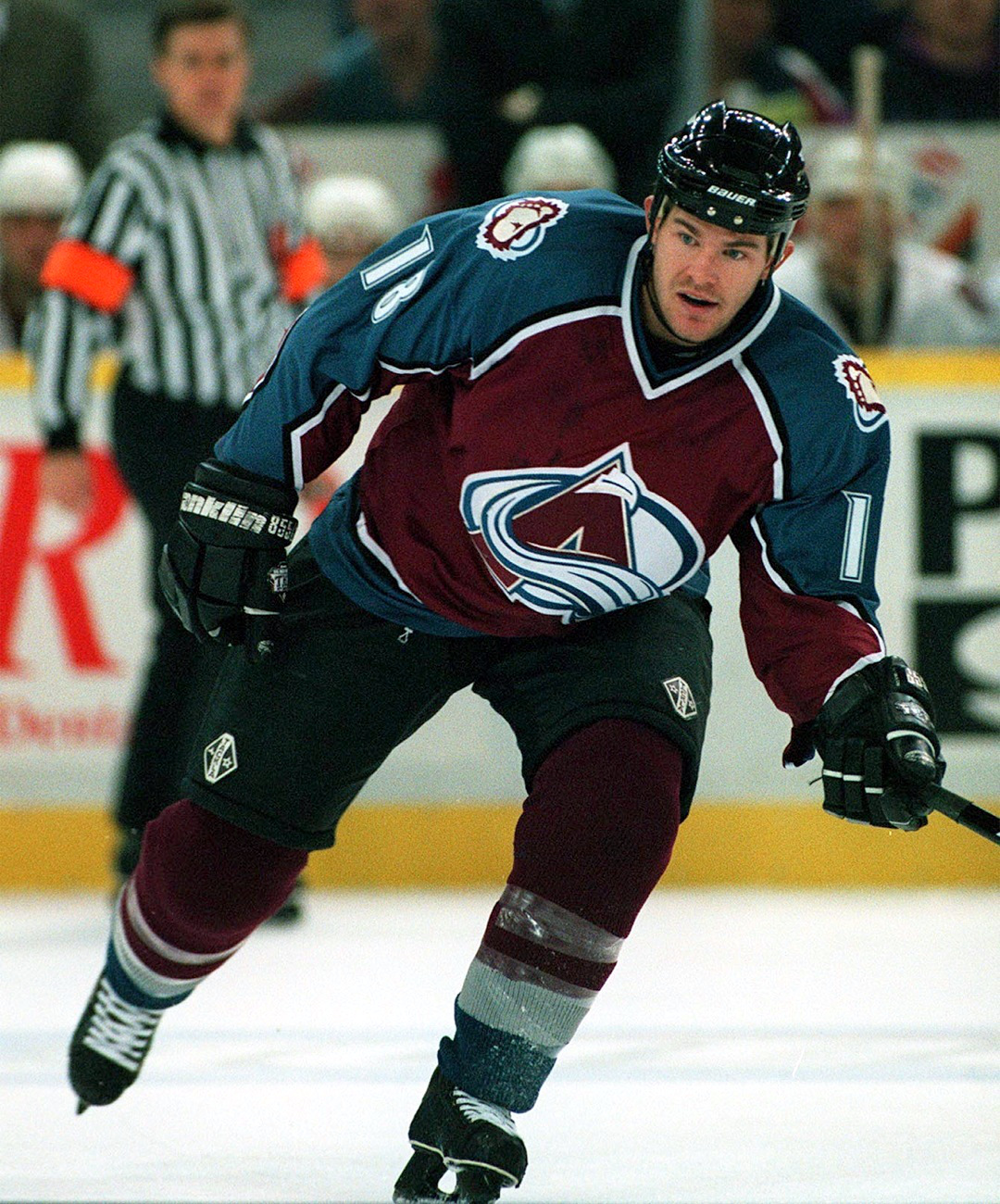 Adam Deadmarsh in a Colorado Avalanche jersey.